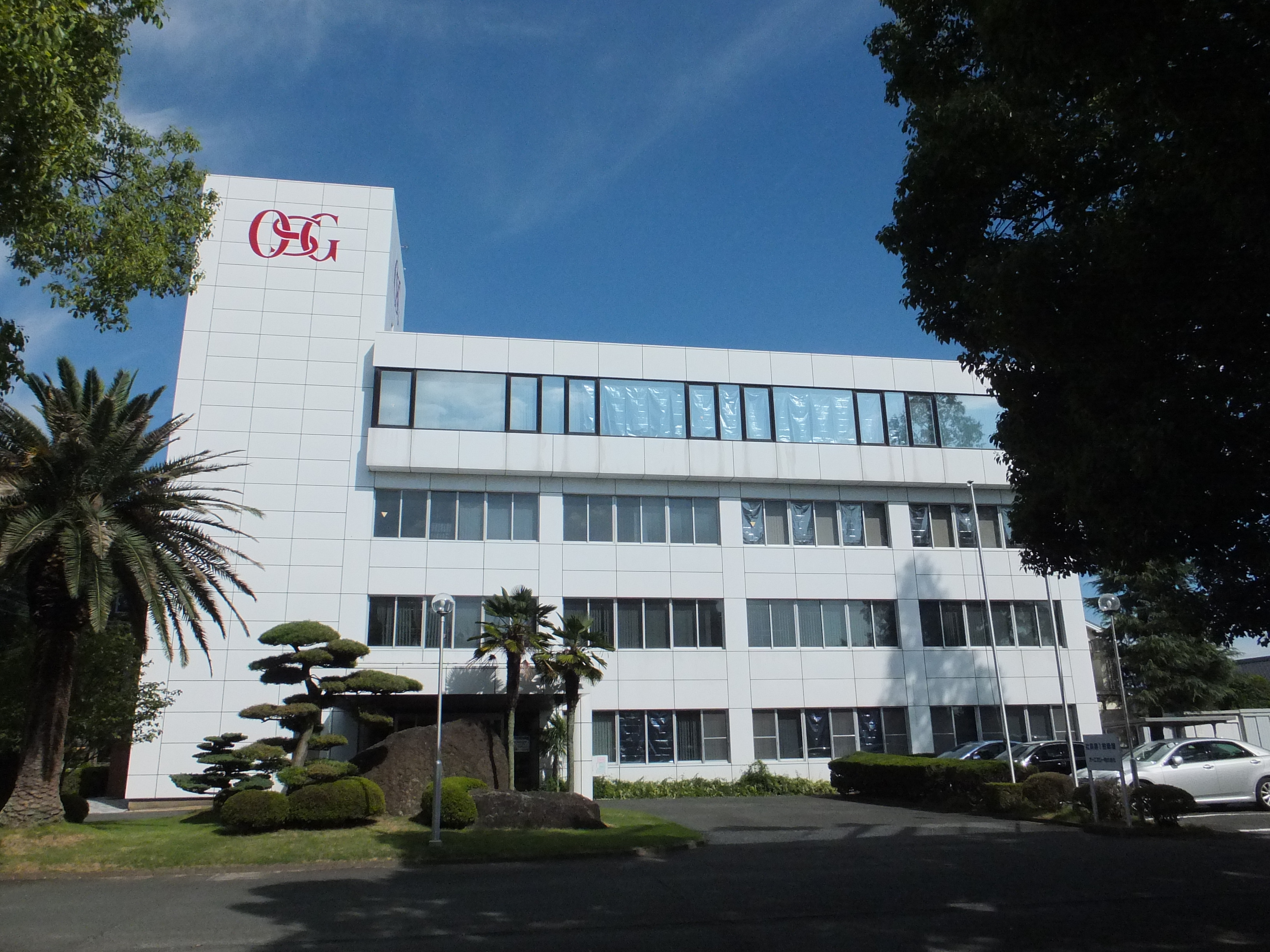 Headquarters of OSG Corp. (オーエスジー株式会社), located at Hon'nogahara, Toyokawa, Aichi, Japan